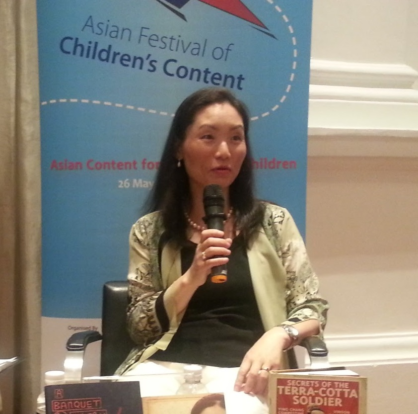 Author Ying Chang Compestine speaking at the Asian Festival of Children's Content.